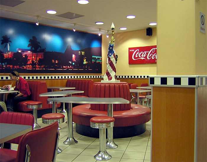 Burger King interior at Stureplan, Stockholm, Sweden